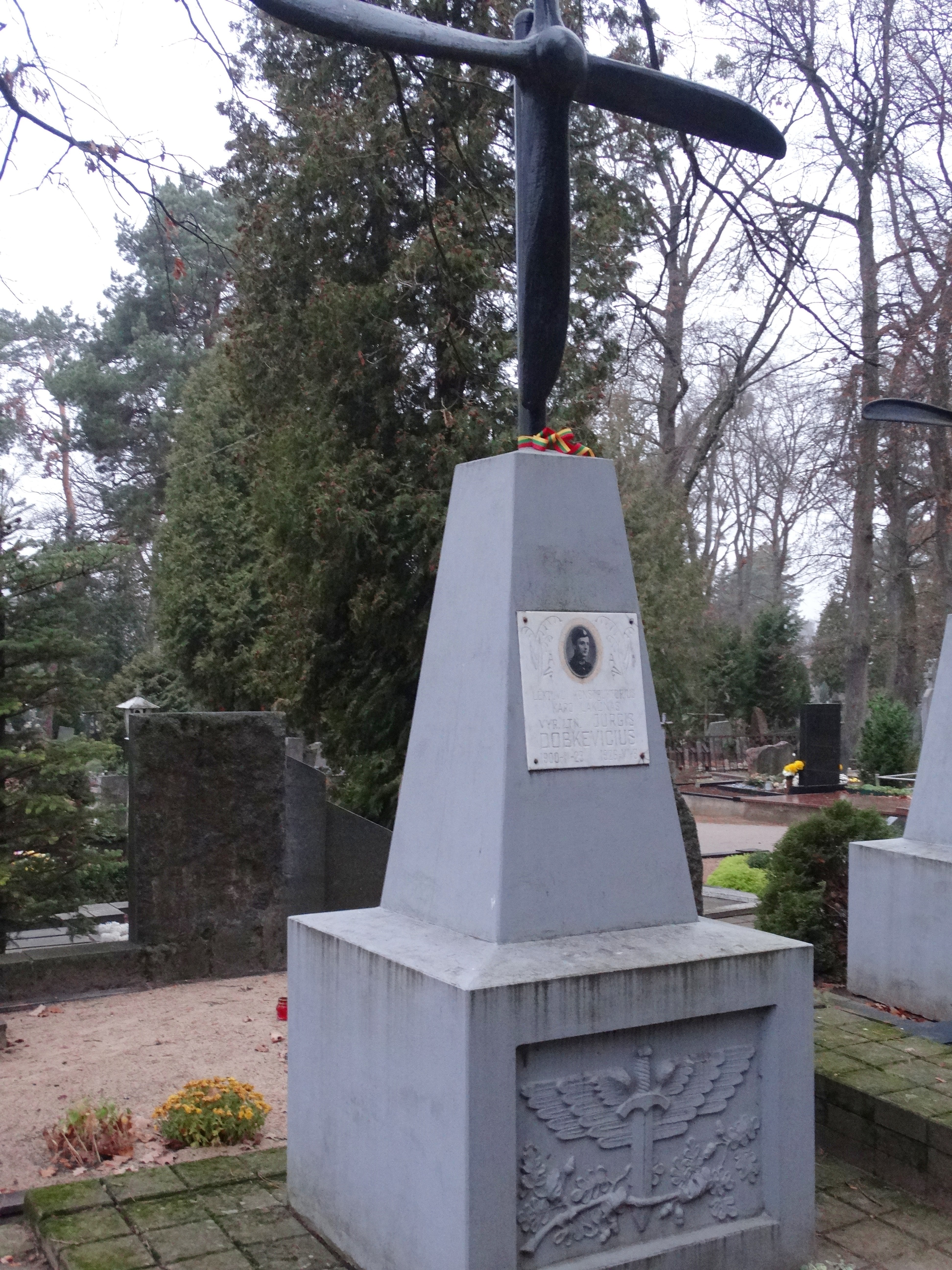 Tomb of Jurgis Dobkevičius, cemetery in Panemunė, Kaunas, Lithuania